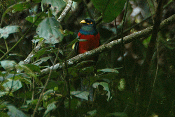 Uganda Bar-tailed Trogon Apaloderma vittatum